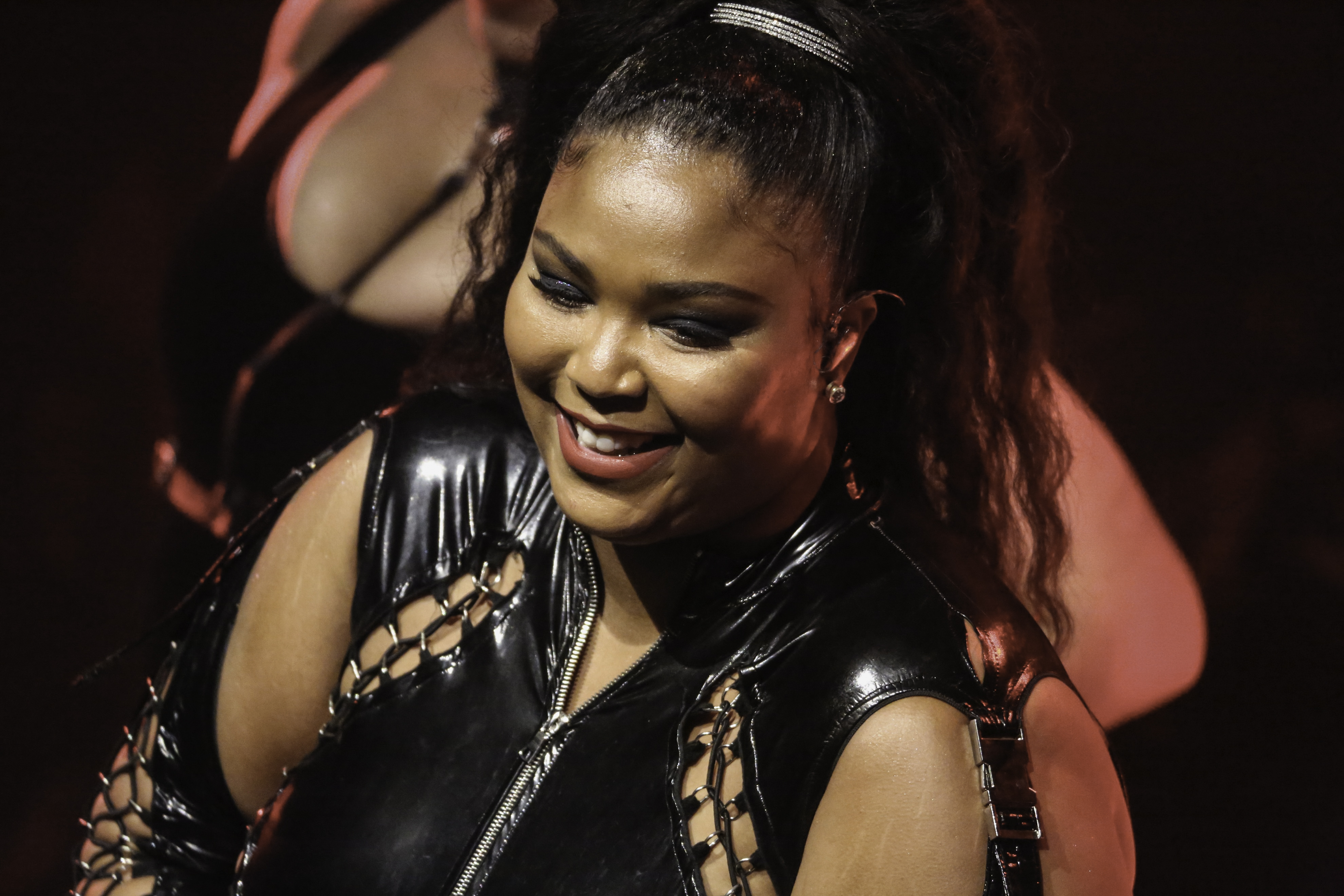 Lizzo - Palace Theatre - St. Paul